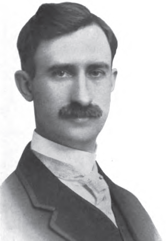 The 51st Ohio Governor named Myers Y. Cooper from Cincinnati